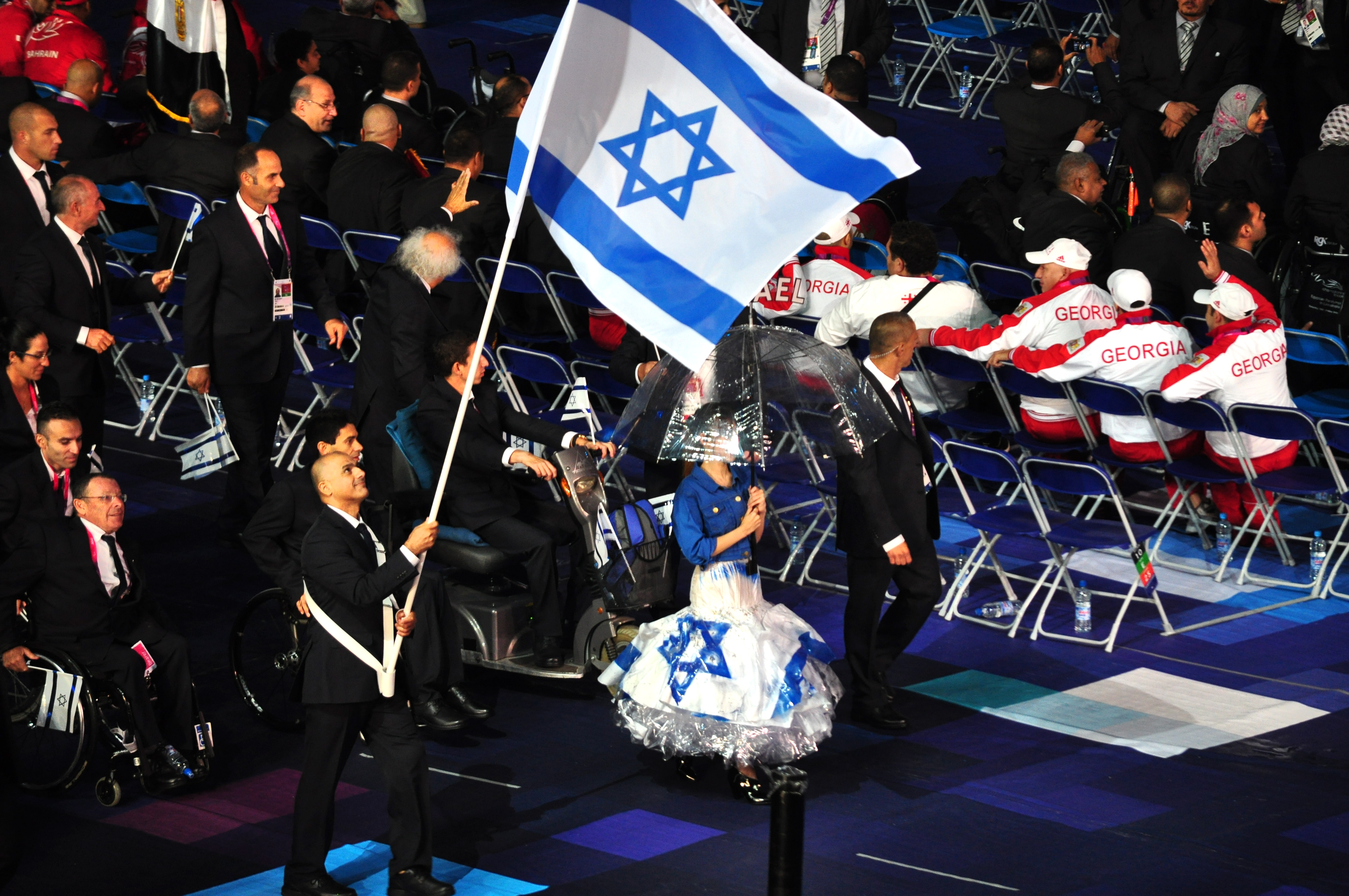 Israel Paralympic team at the London 2012 Opening Ceremony.jpg